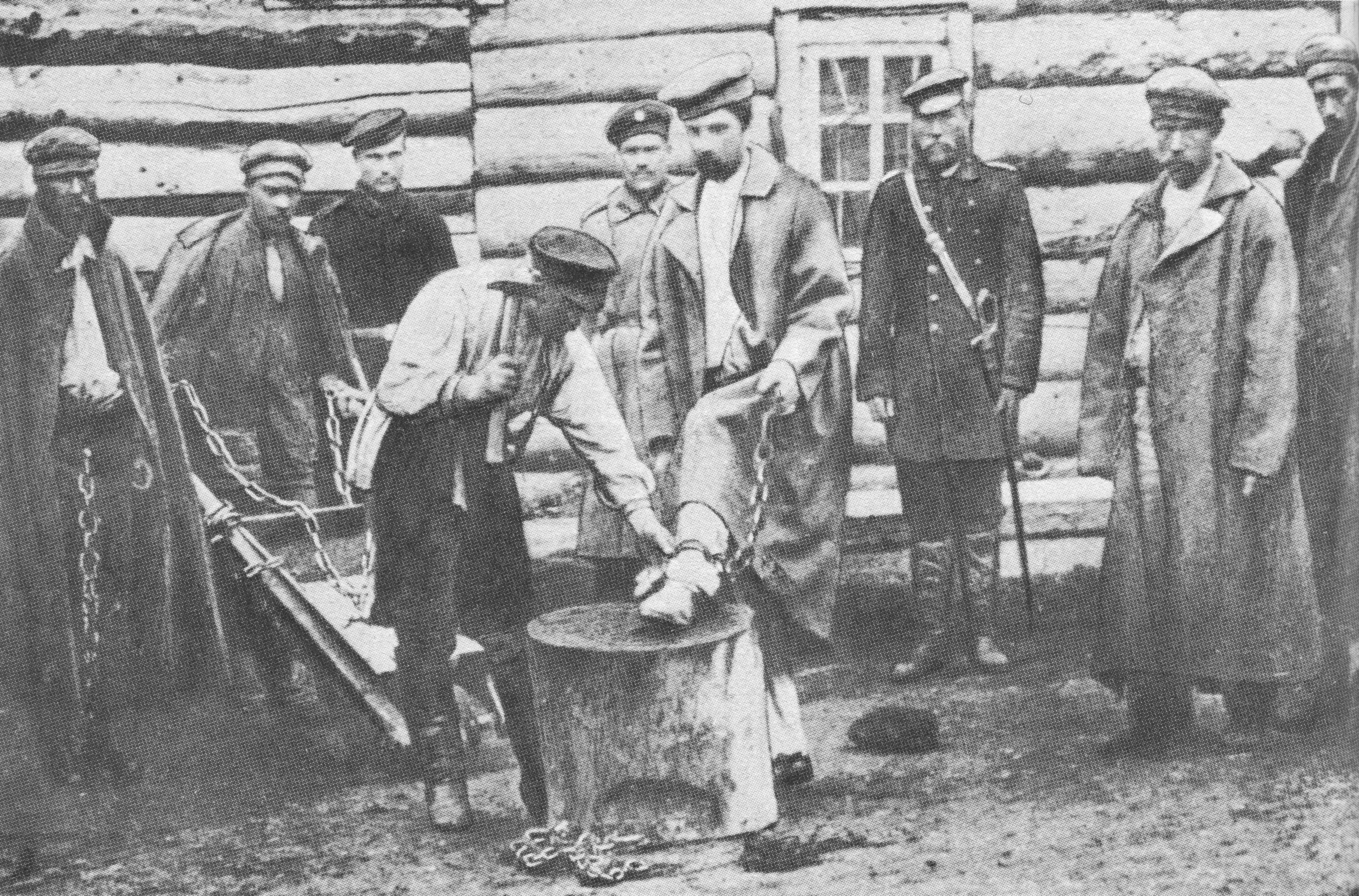 Prisoners are fettered in Sachalin in Siberia. Photograph from Anton Chekhov's report.